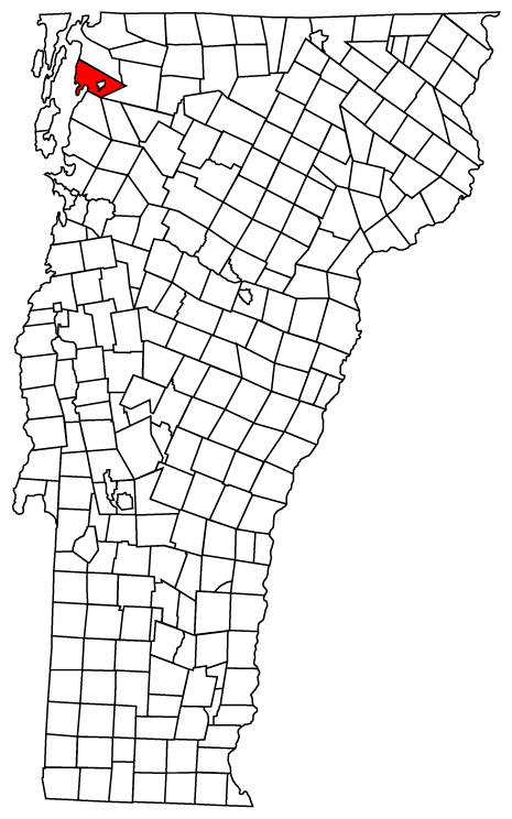 Description: Map of Vermont towns with Saint Albans highlighted Source: Map created by Jared C. Benedict on 26 March 2004. Copyright: © Jared C. Benedict.